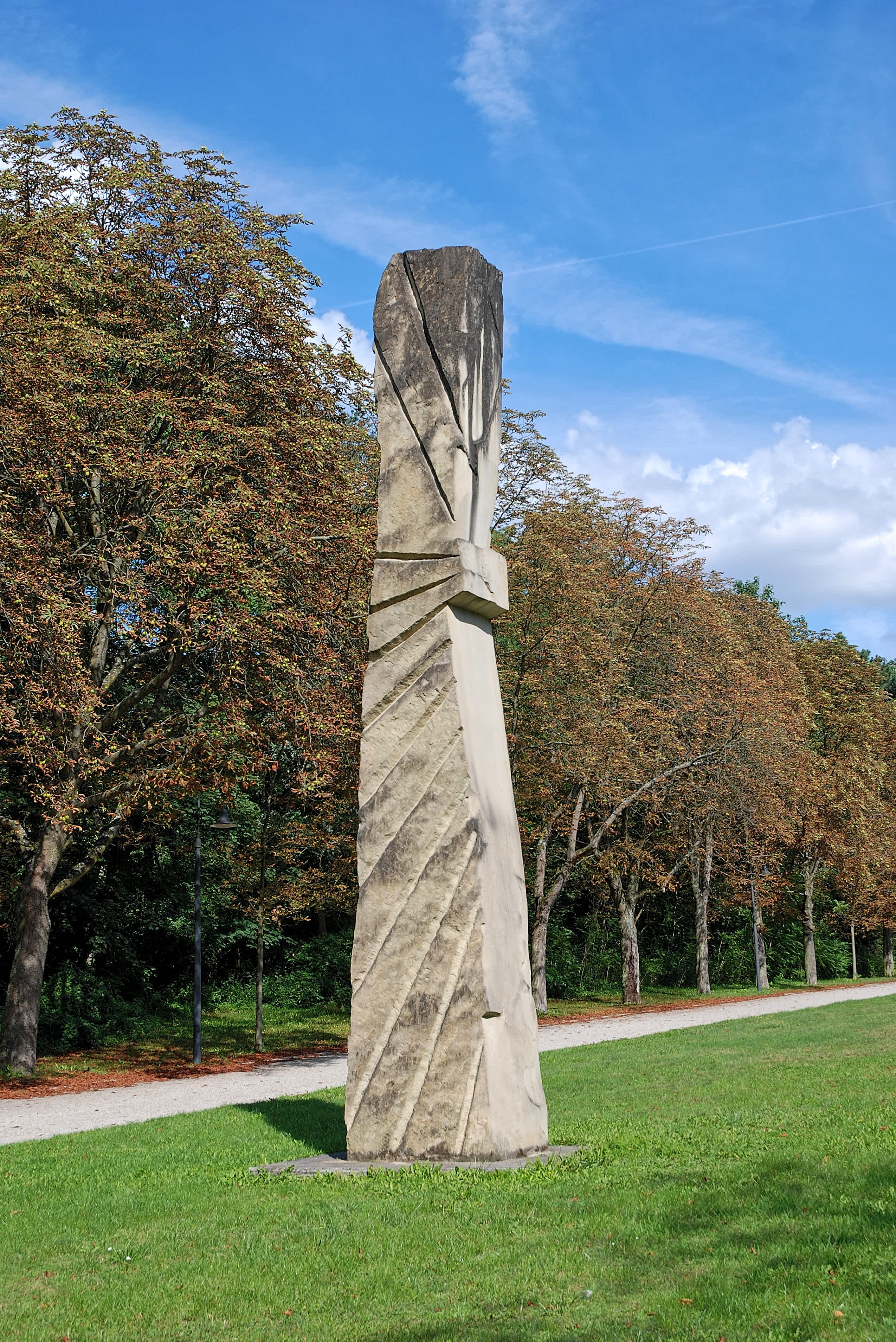 Single photo enhanced with easyHDR 3.12.0: DSC_0286.JPG